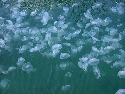 A bloom of jellyfish (Aurelia aurita).